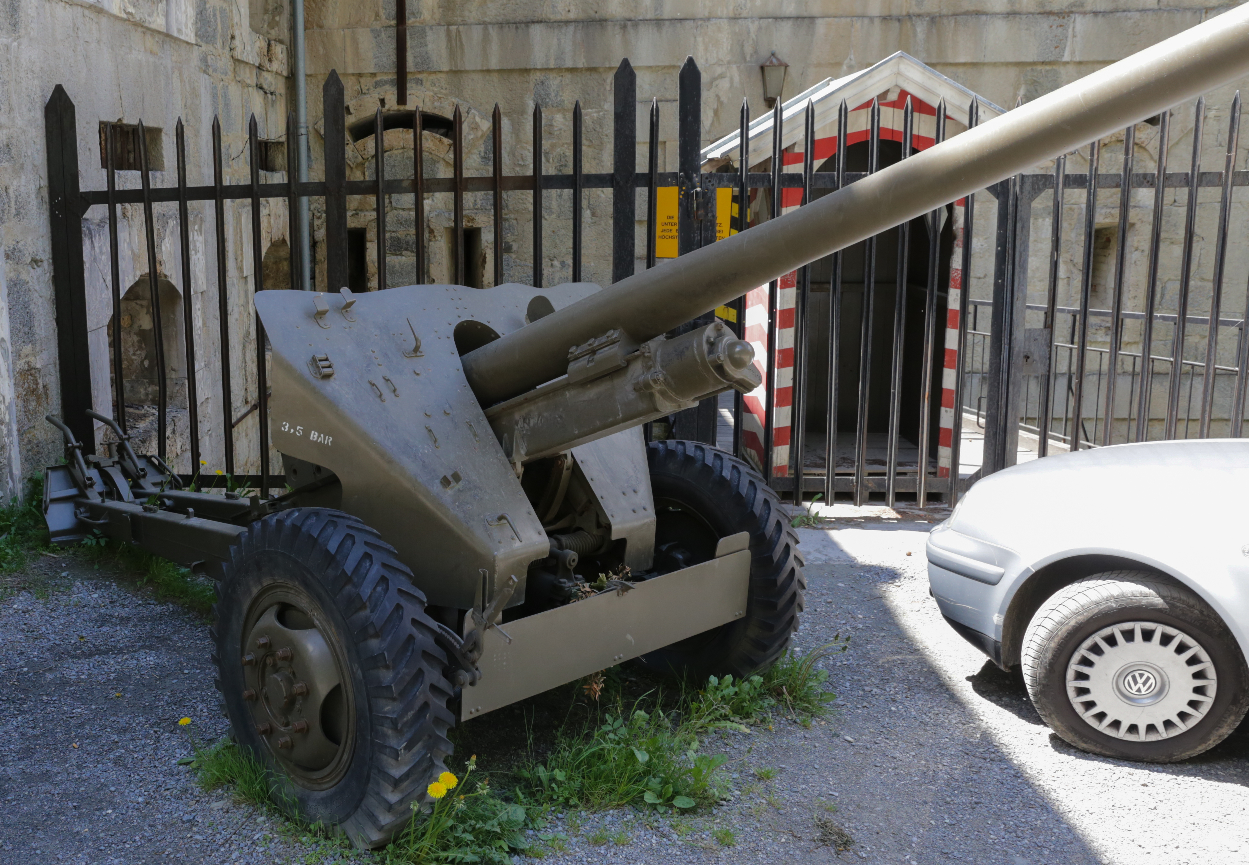 Fort Nauders, Nauders, Tyrol The making of this work was supported by Wikimedia Austria. For other files made with the support of Wikimedia Austria, please see the category Supported by Wikimedia Österreich. Dieses Foto wurde im Rahmen des von Wikimedia Österreich unterstützten ProjektsWiki Takes Nordtiroler Oberland erstellt. The making of this work was supported by Wikimedia Austria. For other files made with the support of Wikimedia Austria, please see the category Supported by Wikimedia Österreich.